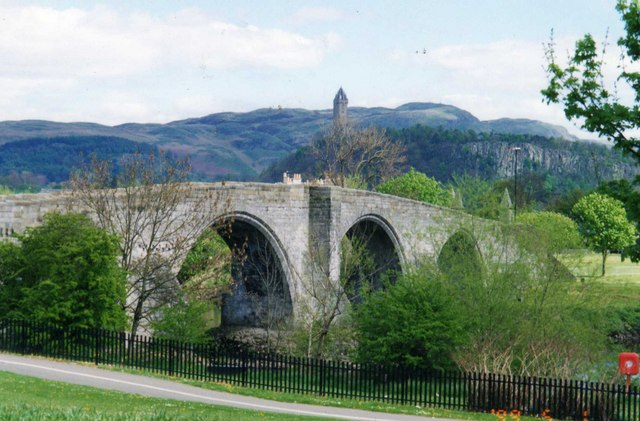 Old Stirling Bridge With the Wallace Monument atop the Abbey Craig in the background.